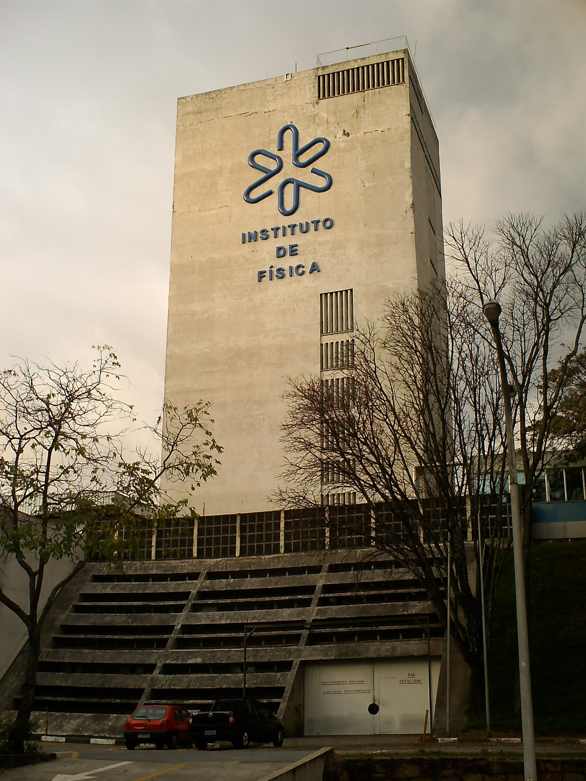 Tower of the Pelletron particle beams accelerator, part of the Nuclear Physics Open Laboratory of the Physics Institute of the University of São Paulo.